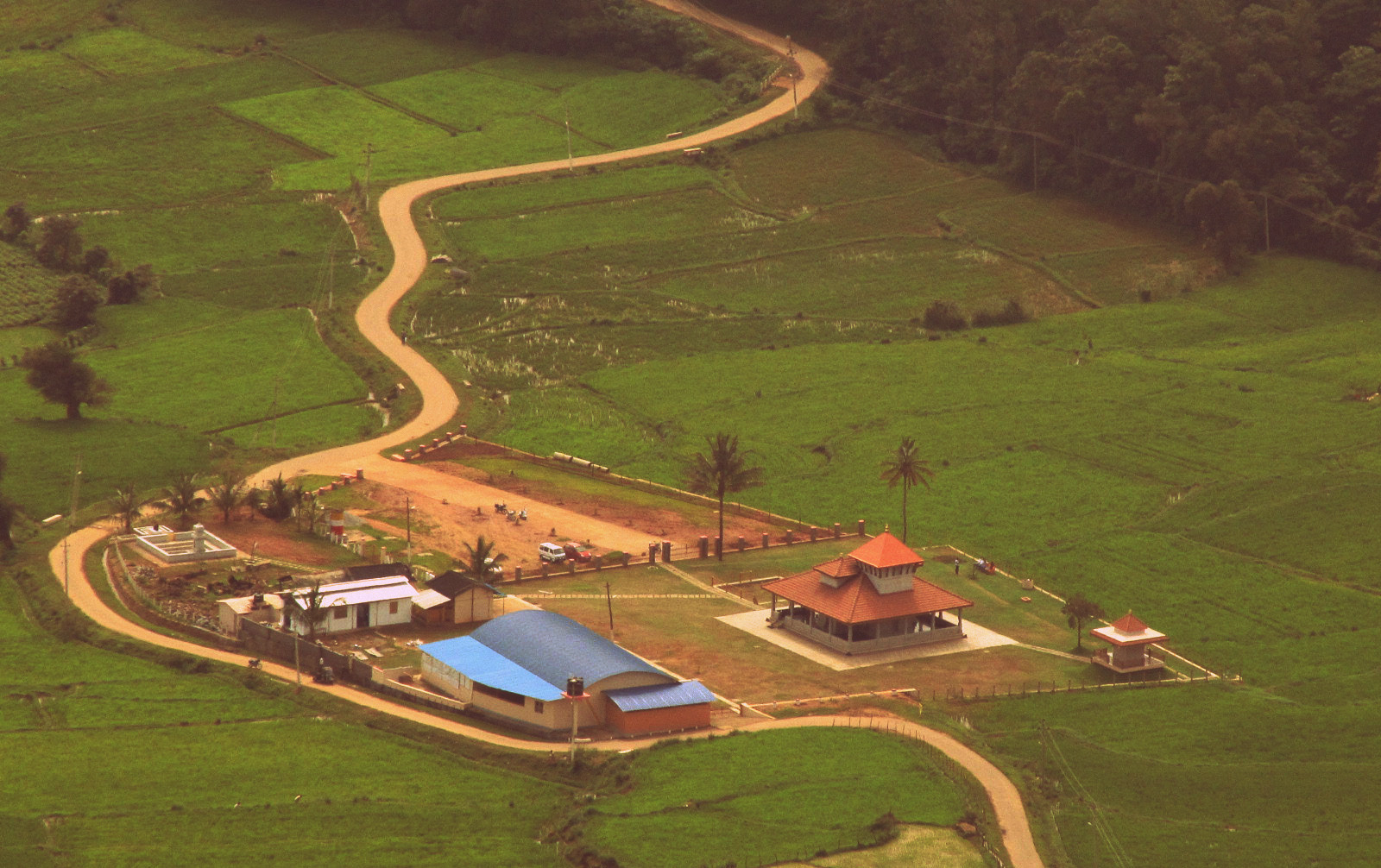 This is an aerial view of a farm taken at Deveramma Hill, Chikmangalur Karnataka,India.